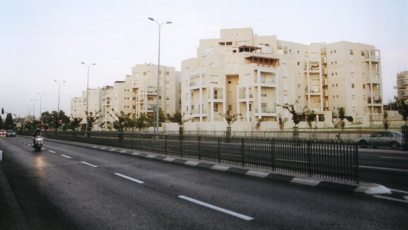 Building of Tzameret Allenby neighburhood, Hebron Rd., Jerusalem